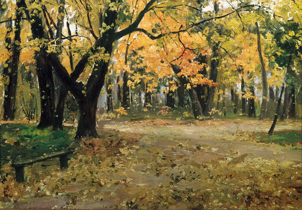 In Abramtsevo Park